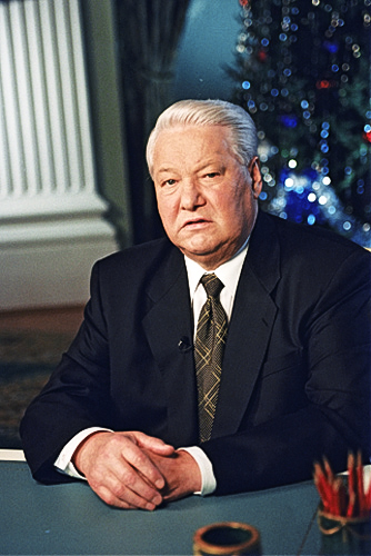 THE KREMLIN, MOSCOW. Televised address by President Boris Yeltsin.